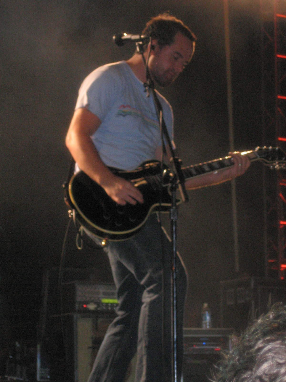 Matt Hoopes performing at Purple Door 2006